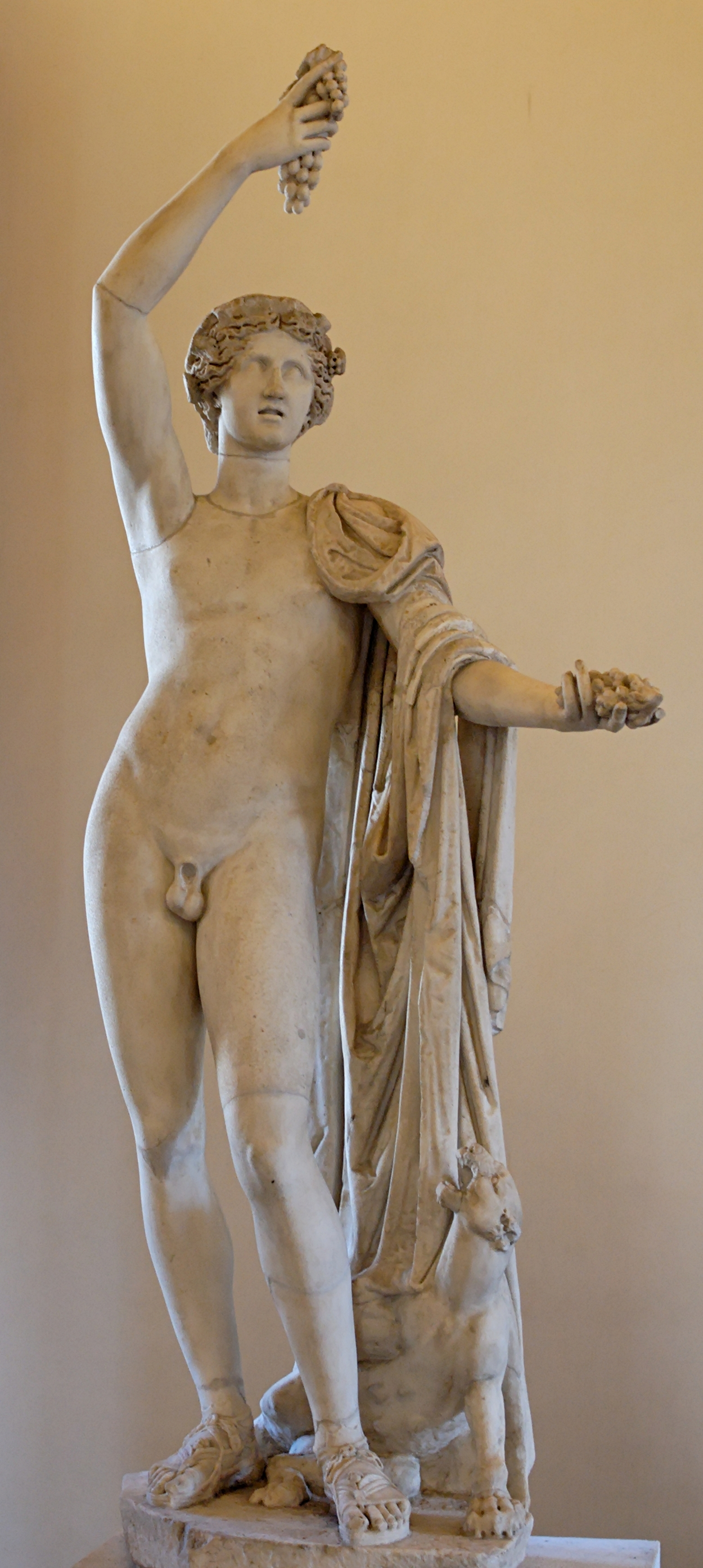 Dionysos. Marble, Roman artwork after Praxiteles' Lykeios Apollo (4th century BC). The head is antique but does not belong to the body.